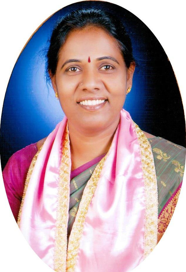 ZP Chairperson, Karimnagar